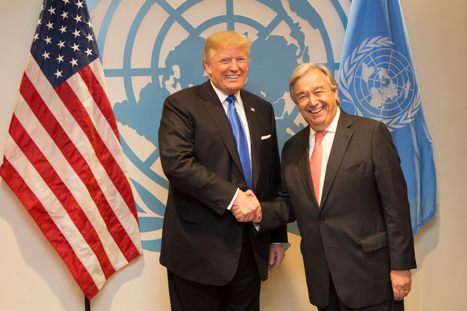 President Donald J. Trump and United Nations Secretary-General António Guterres at the United Nations General Assembly (Official White House Photo by Shealah Craighead)